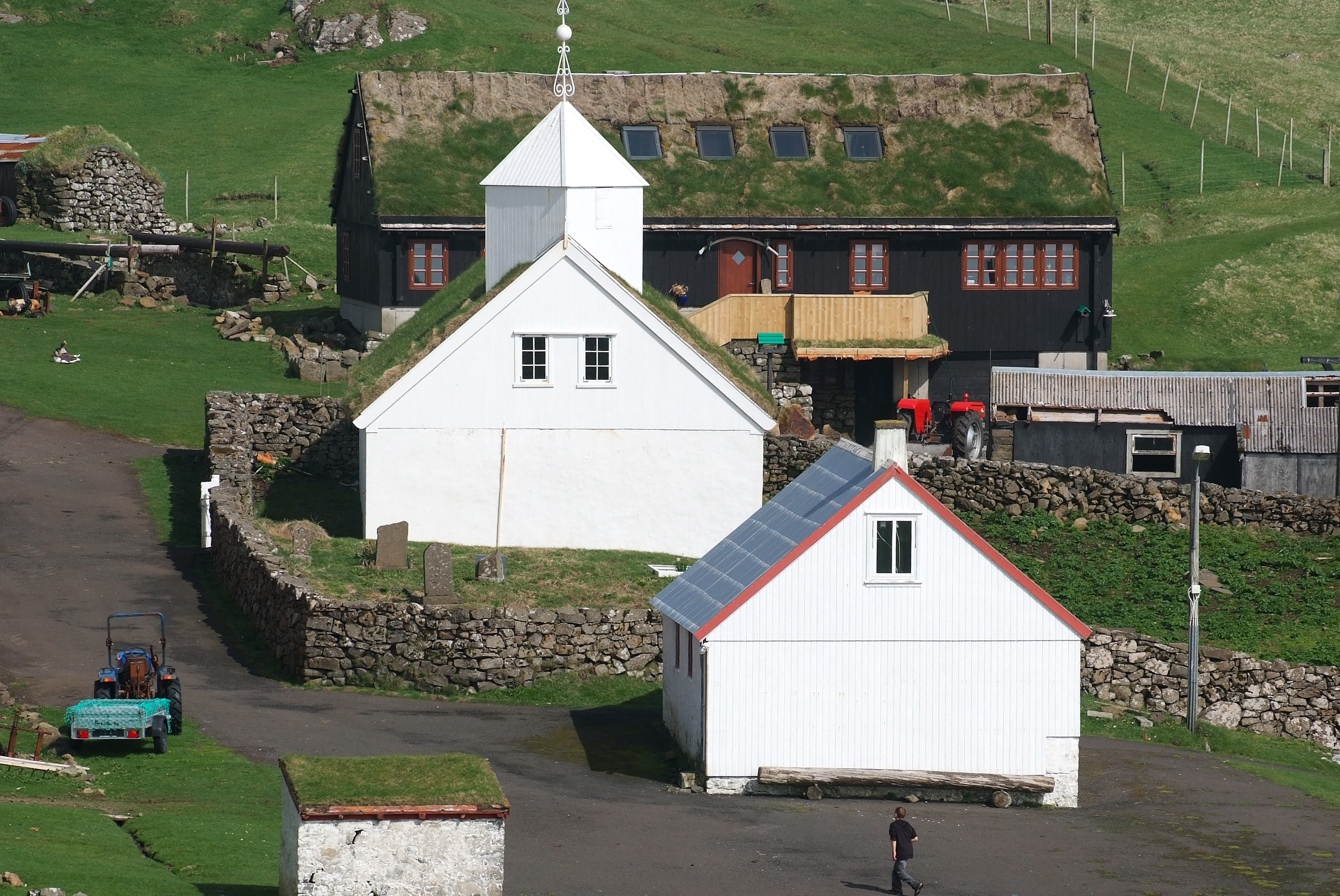 Church of Mykines, Faroe Islands.